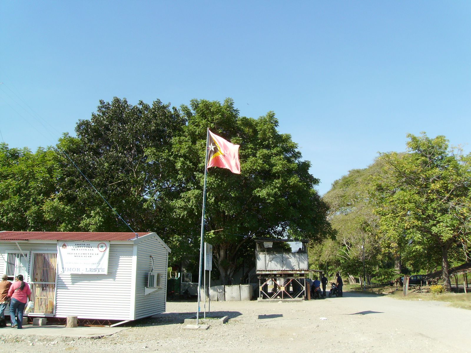 timorese border post, batugade